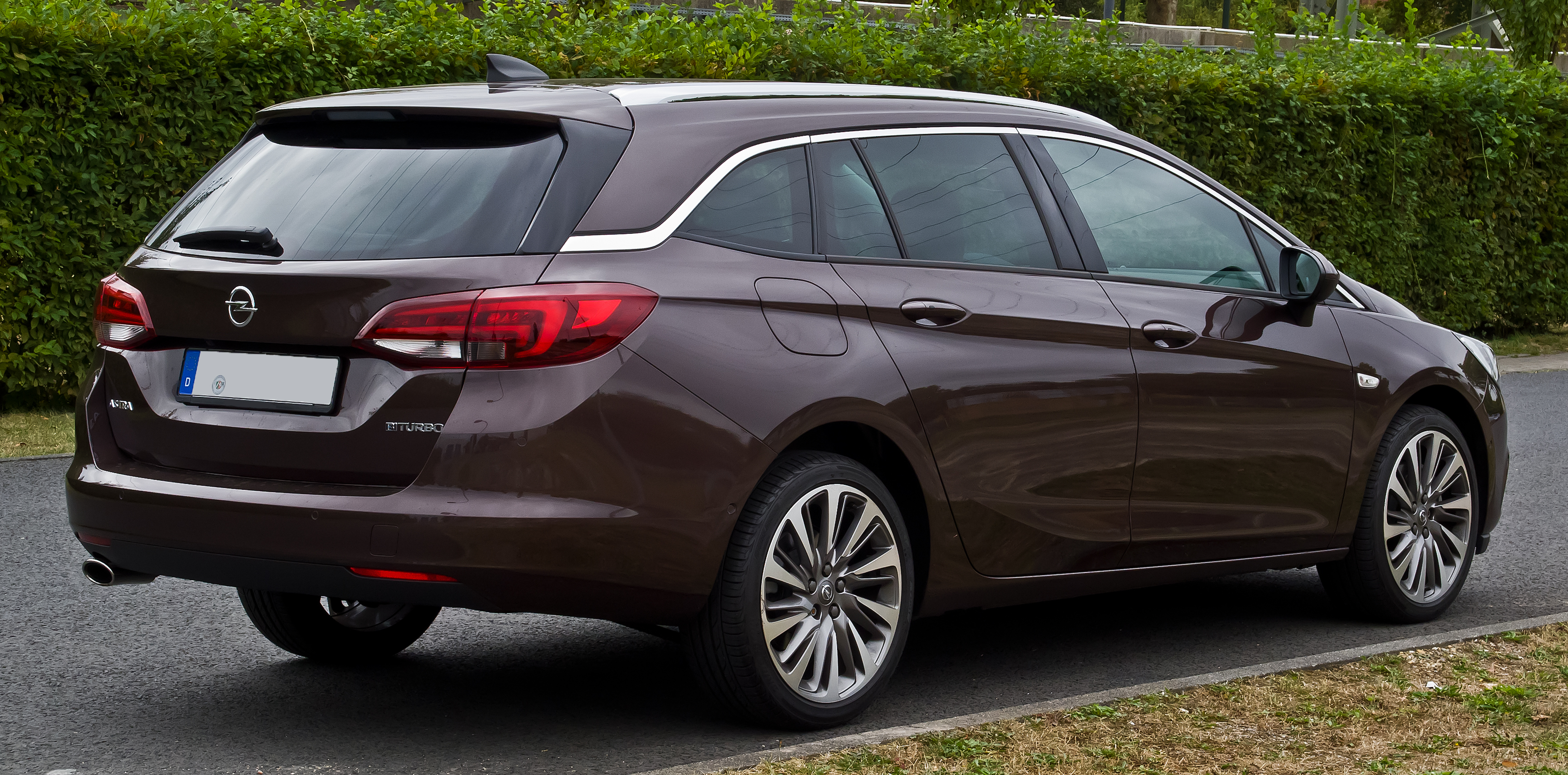 Opel Astra Sports Tourer 1.6 BiTurbo CDTI ecoFLEX Innovation (K)